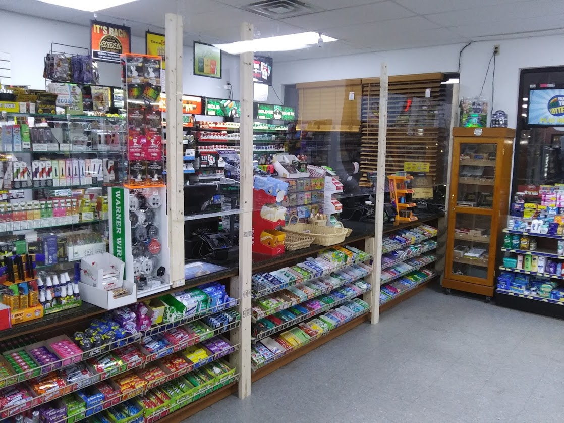 Plastic shielding set up to prevent transmission of COVID-19 between customers and cashiers at a convenience store in Montgomery, NY, USA.